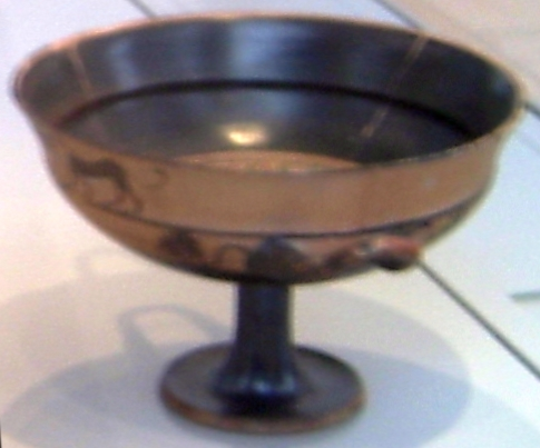 Tondo: Man riding hippalektryon; Lip: Sirens and swan. Attic black-figure lip cup, 540–530 BC. Signes by potter Xenokles.